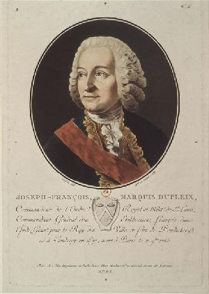 Joseph François Dupleix (1697-1763)